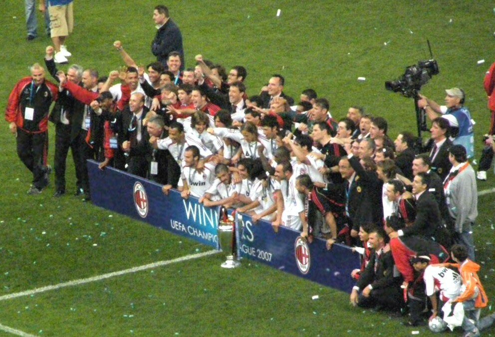 AC Milan players celebrate with the trophy after they beat Liverpool 2-1 to win the Champions League Final match at the Olympic Stadium in Athens.